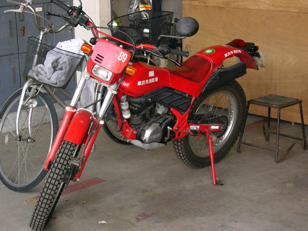 from「見せて」 Honda TLM220R / Yokohama Fire station